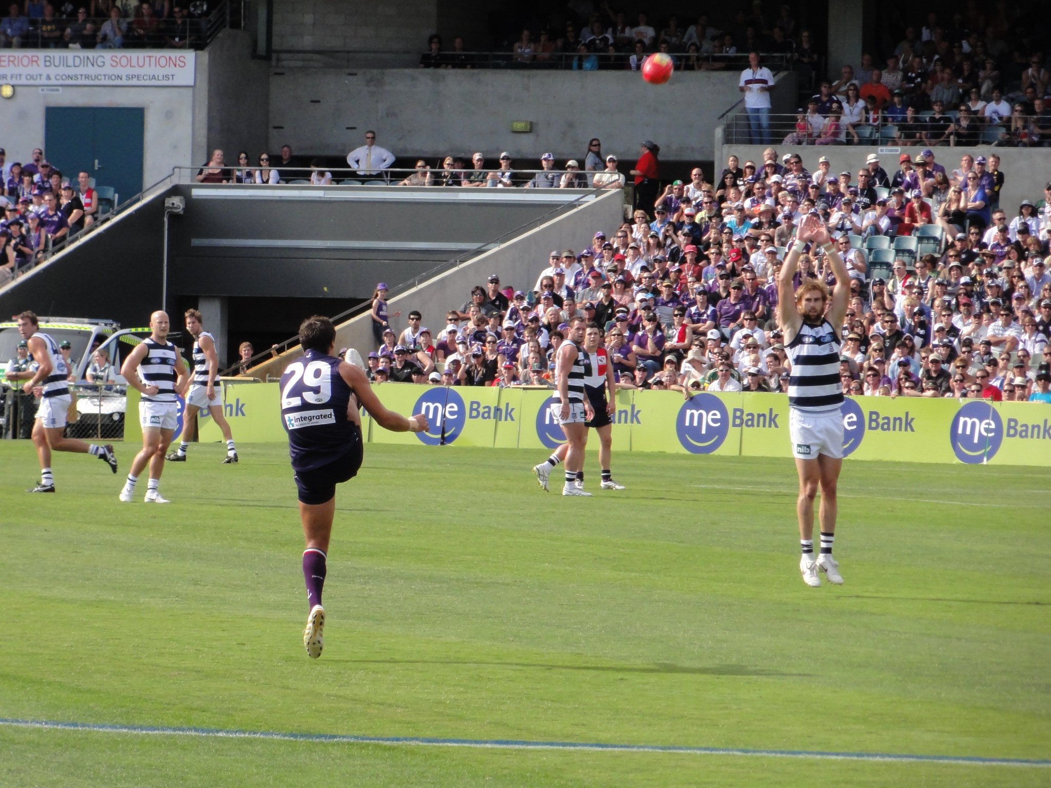 Matthew Pavlich kicks for goal during a 2010 AFL game against the Cats, which Fremantle won.